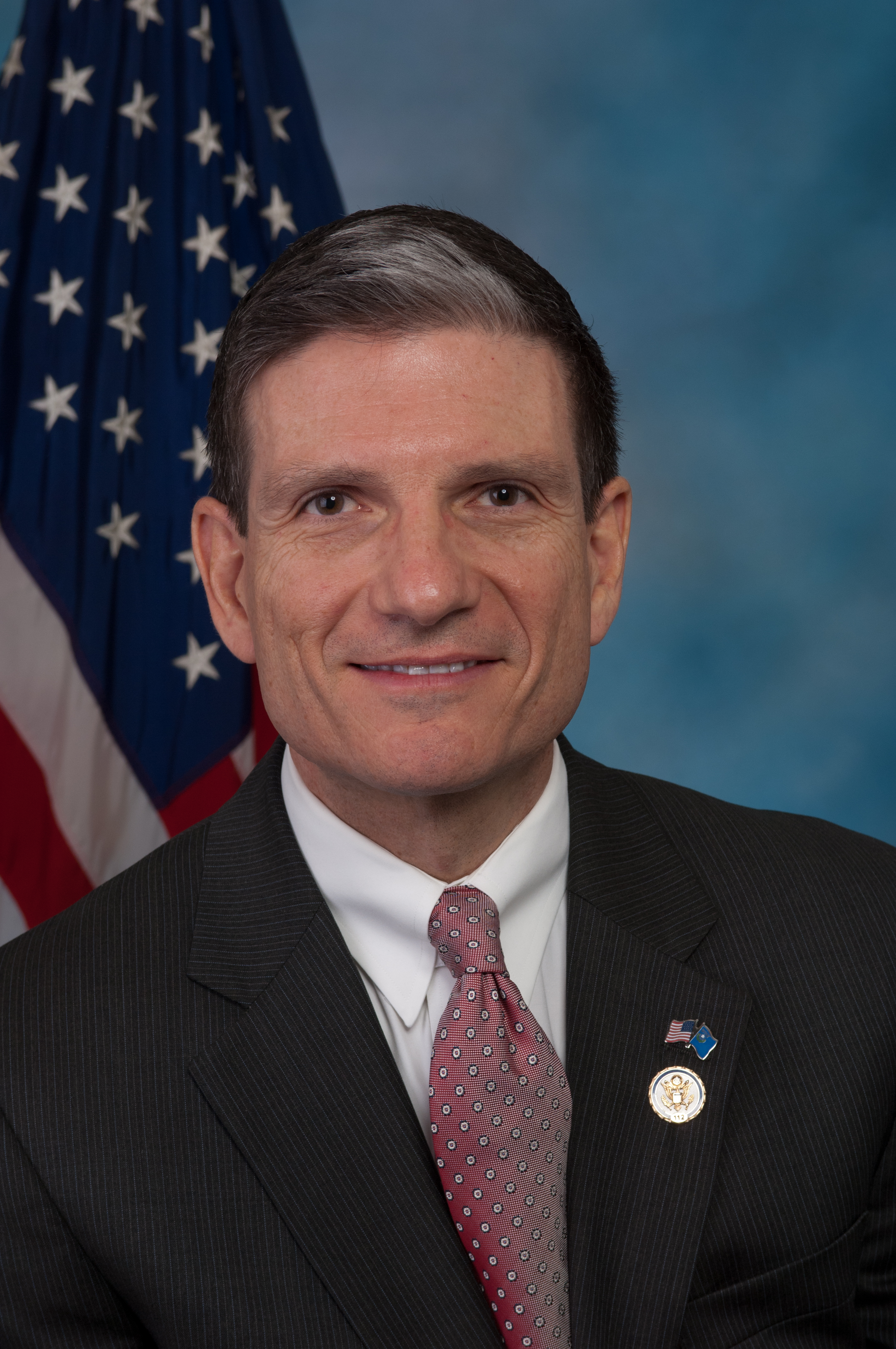 Official portrait of US Rep. Joe Heck